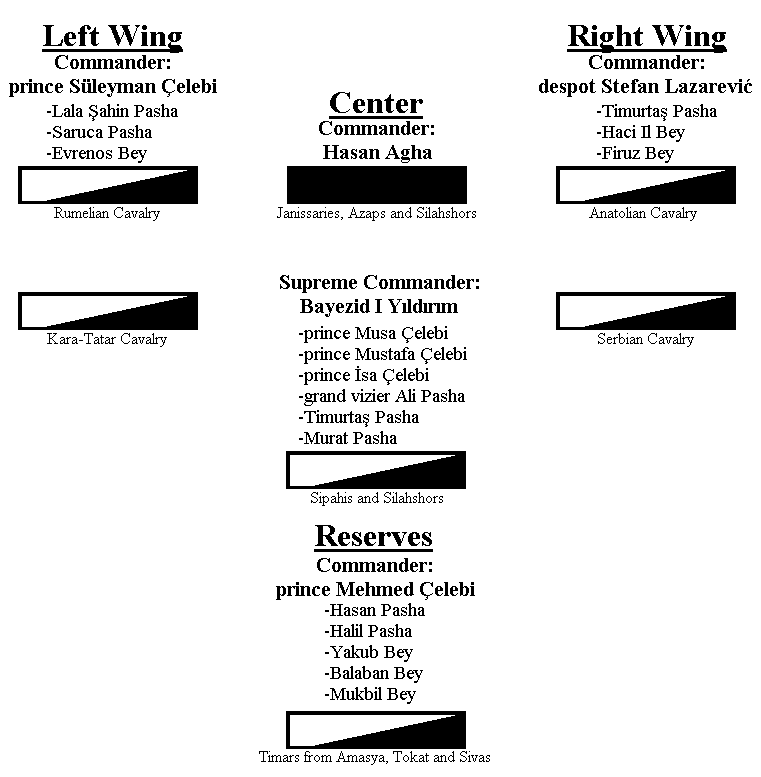 Order of battle of Bayezid's army at the Battle of Ankara, 1402. Source: Ömer Halis Bıyıktay; Timur'un Anadolu Seferi ve Ankara Savaşı, İstanbul 1934 (General Ömer Halis Bıyıktay; Timur's Anatolian Campaign and the Battle of Ankara, Istanbul 1934)